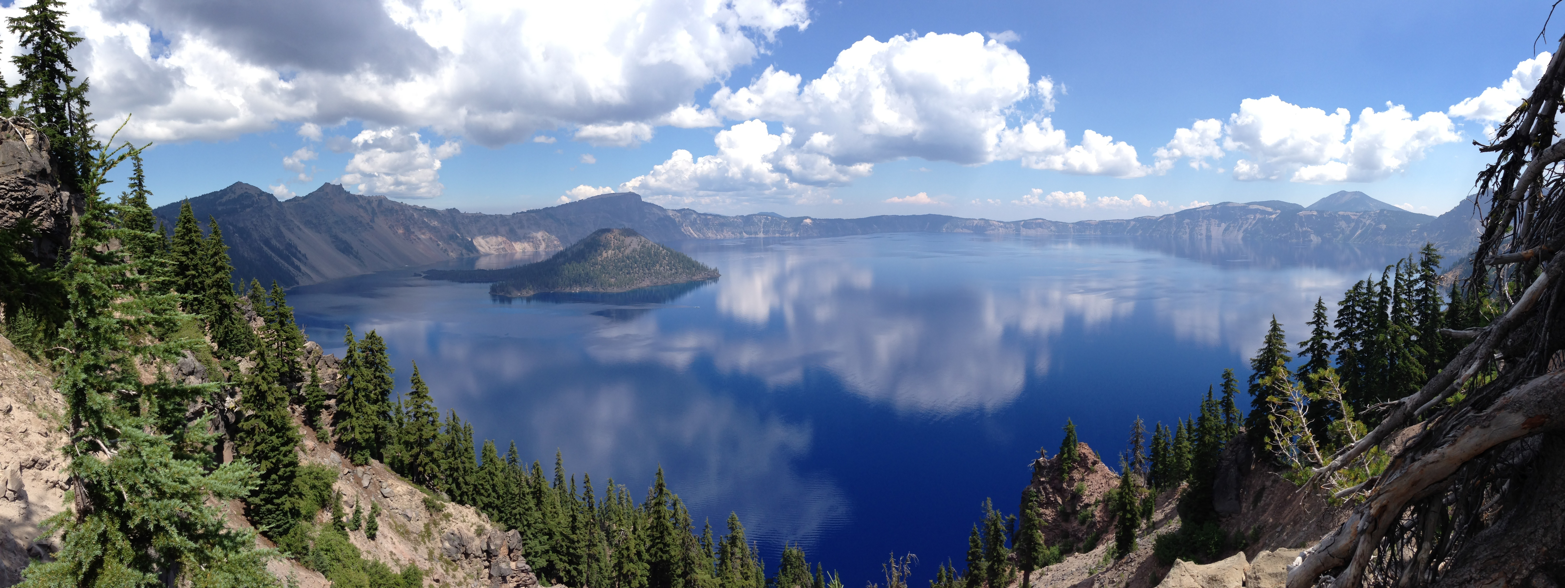 Panorama photo of Crater Lake, Oregon, USA taken in early August 2013.